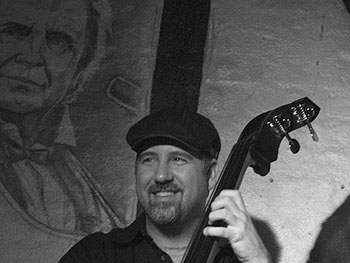 Carlo Derosa